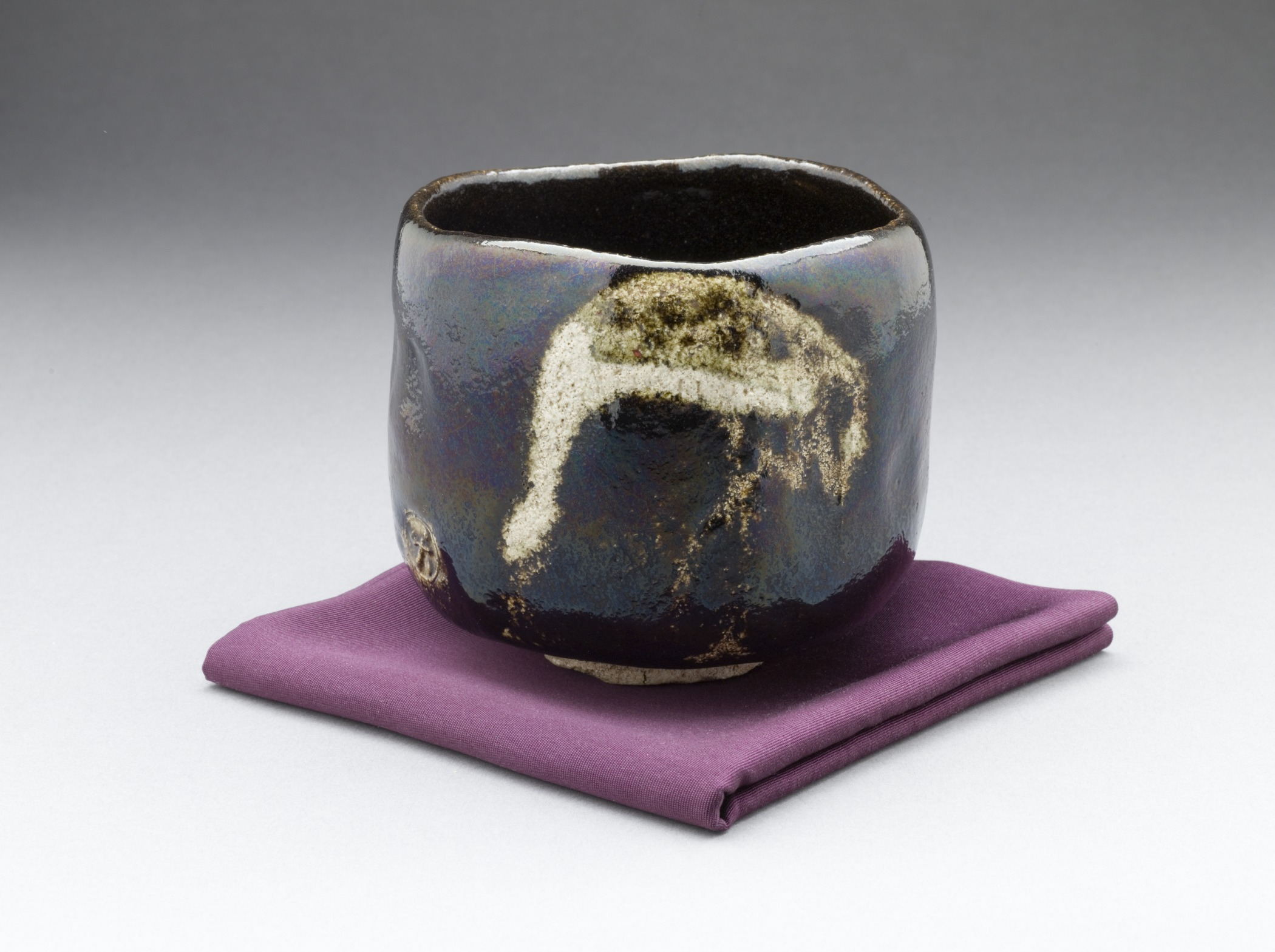 Japan, circa 1810-1838 Furnishings; Serviceware Raku ware; earthenware Height: 3 15/16 in. (10 cm); Diameter: 4 3/8 in. (11.11 cm) Gift of Leslie Prince Salzman (M.2007.7.2) Japanese Art Currently on public view: Pavilion for Japanese Art, floor 3